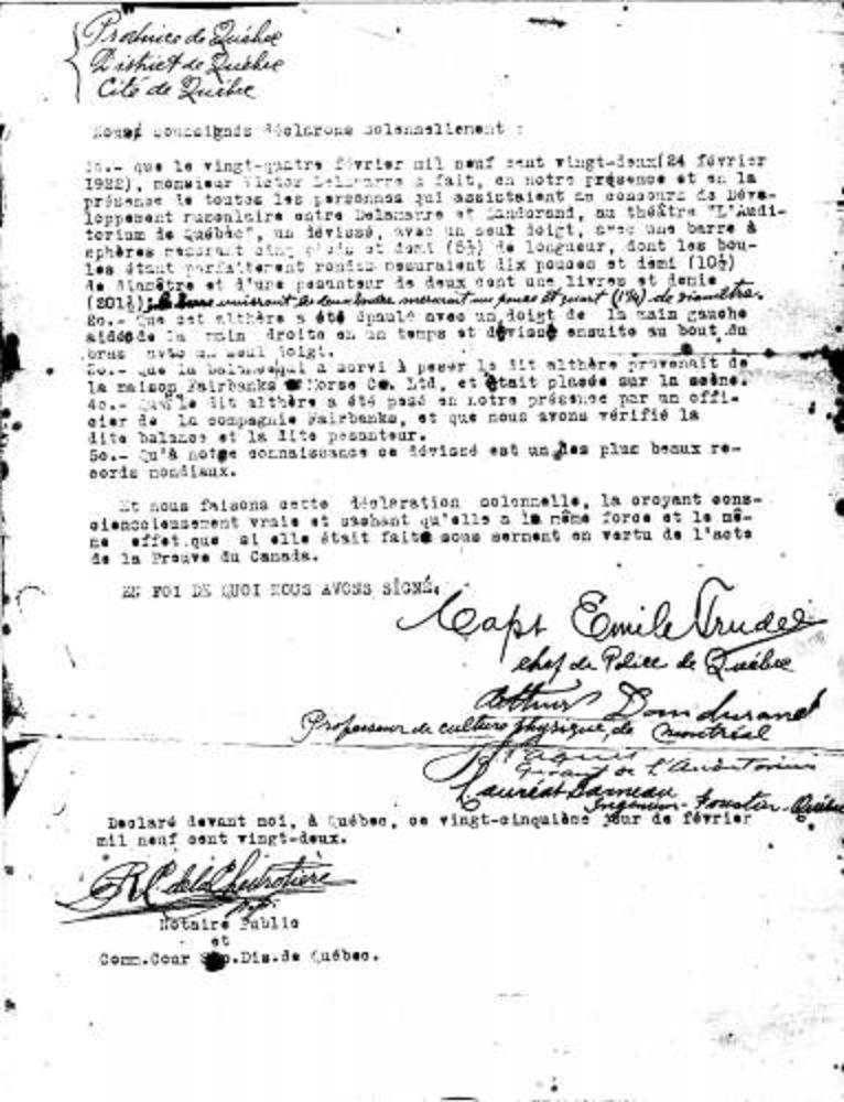 Certificate of Victor Delamarre's exploit of 1922